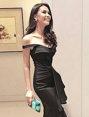 Angelia Ong, Miss Earth 2015 from the Philippines